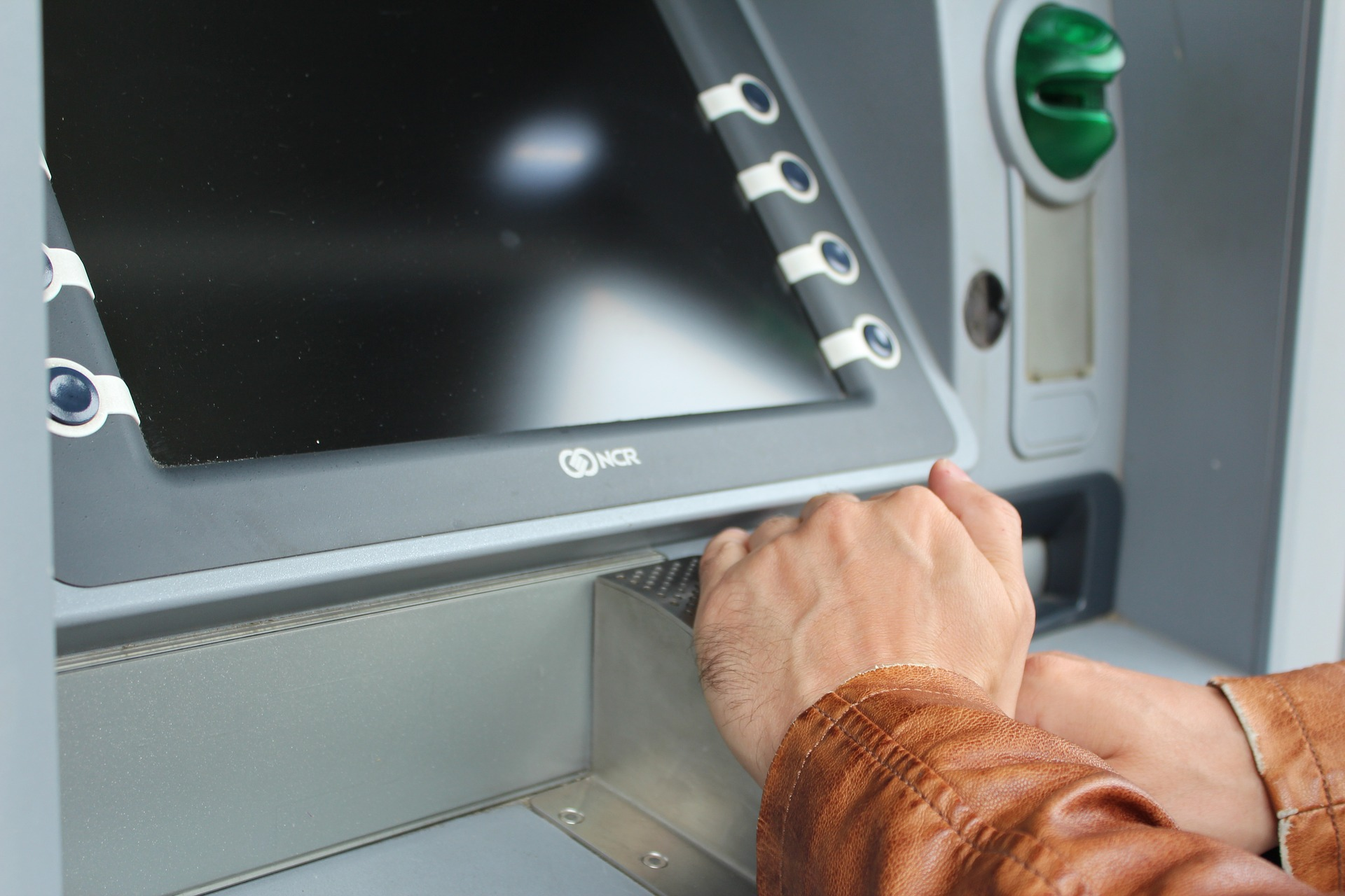 A person keying in a PIN at an ATM, and covering one hand with the other.